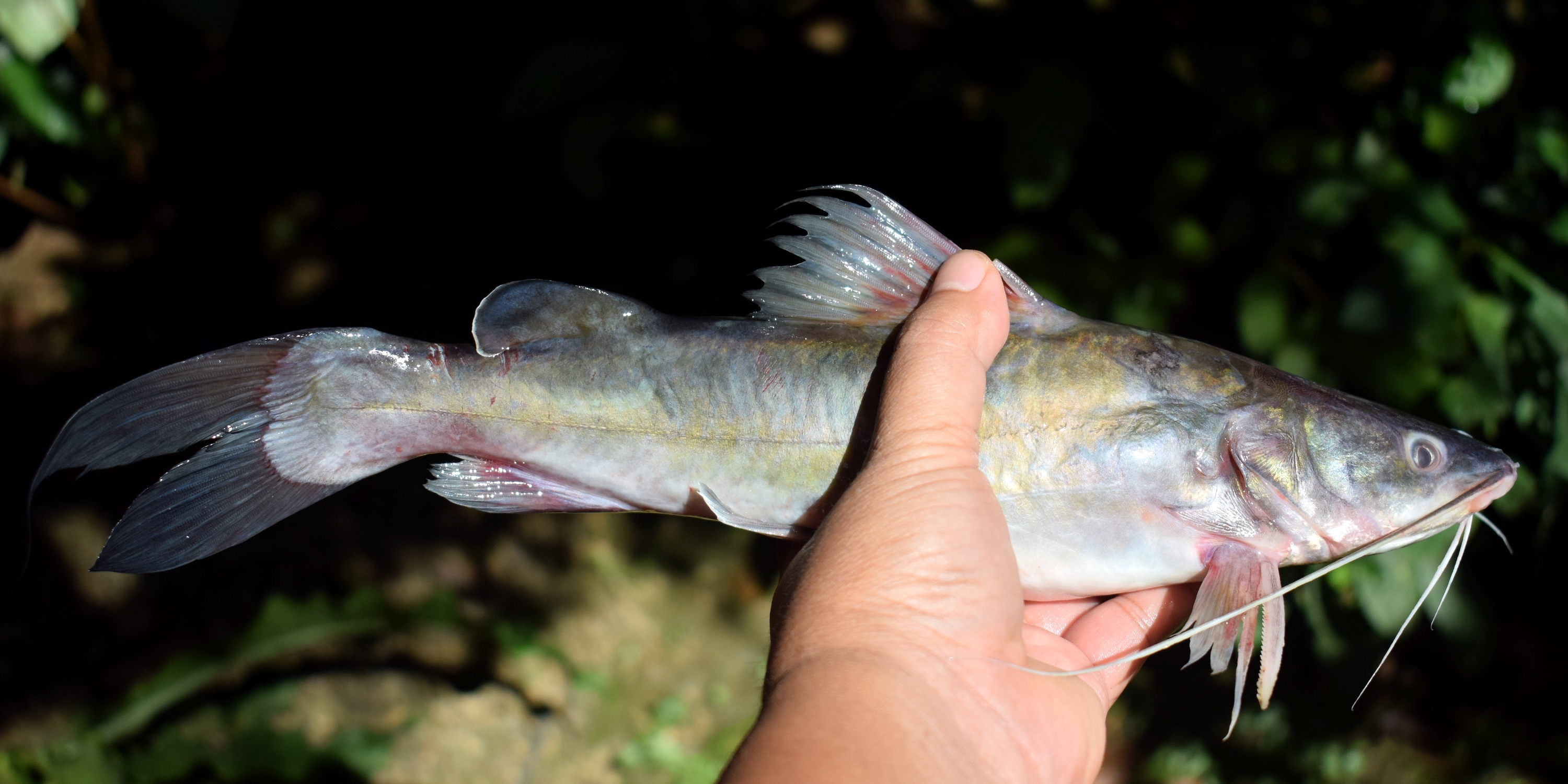 Hemibagrus nemurus, female, 294mm SL; from Cihideung, a tributary of Cisadane River, Bogor, West Java, Indonesia.